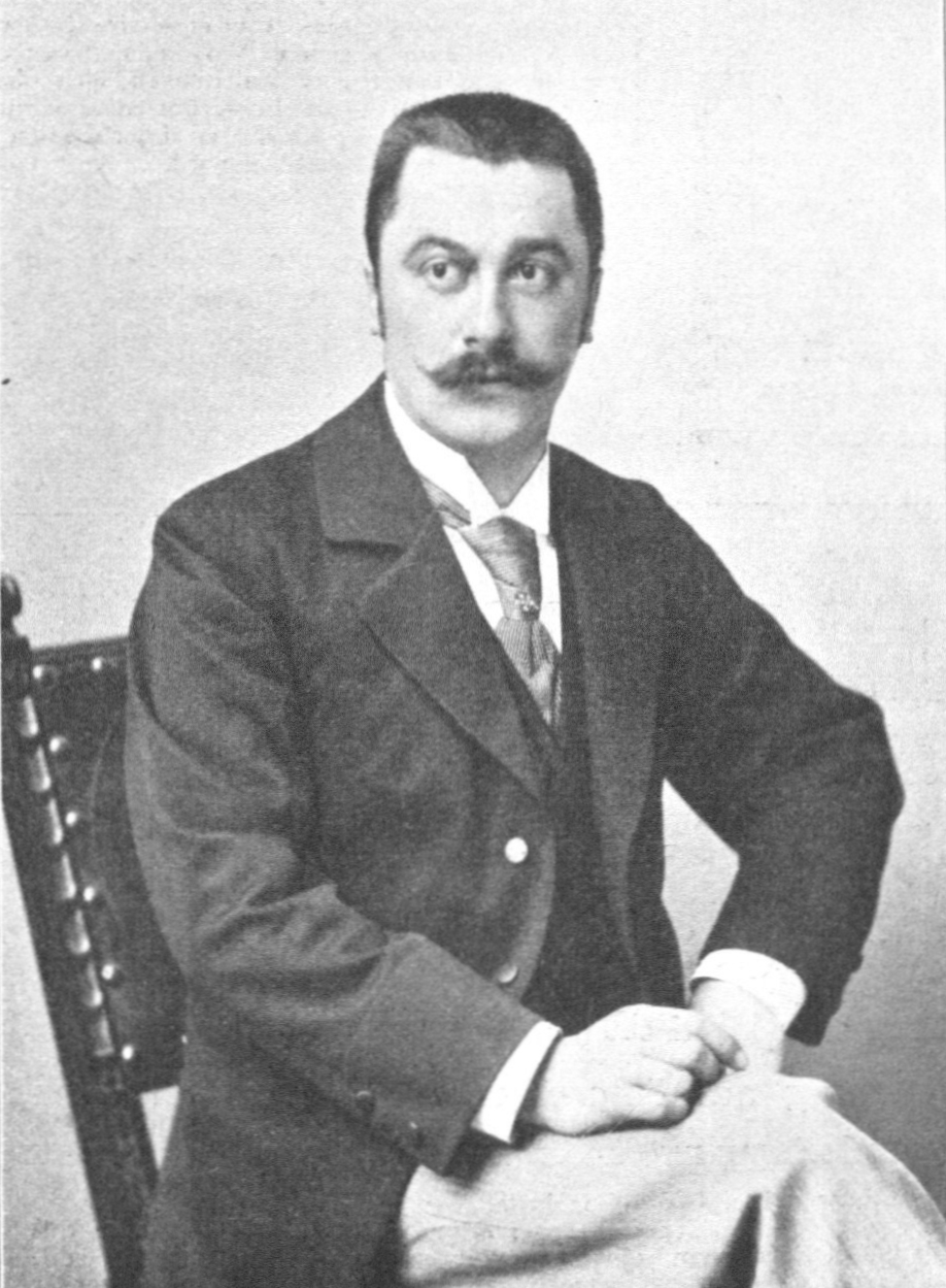 Albin Egger-Lienz